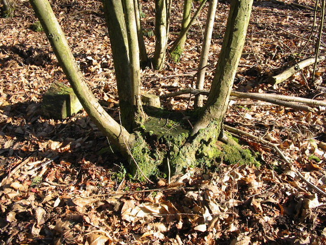 Coppice stool in Hasley Inclosure New Forest Hampshire The new shoots growing out from the stool of the sweet chestnut